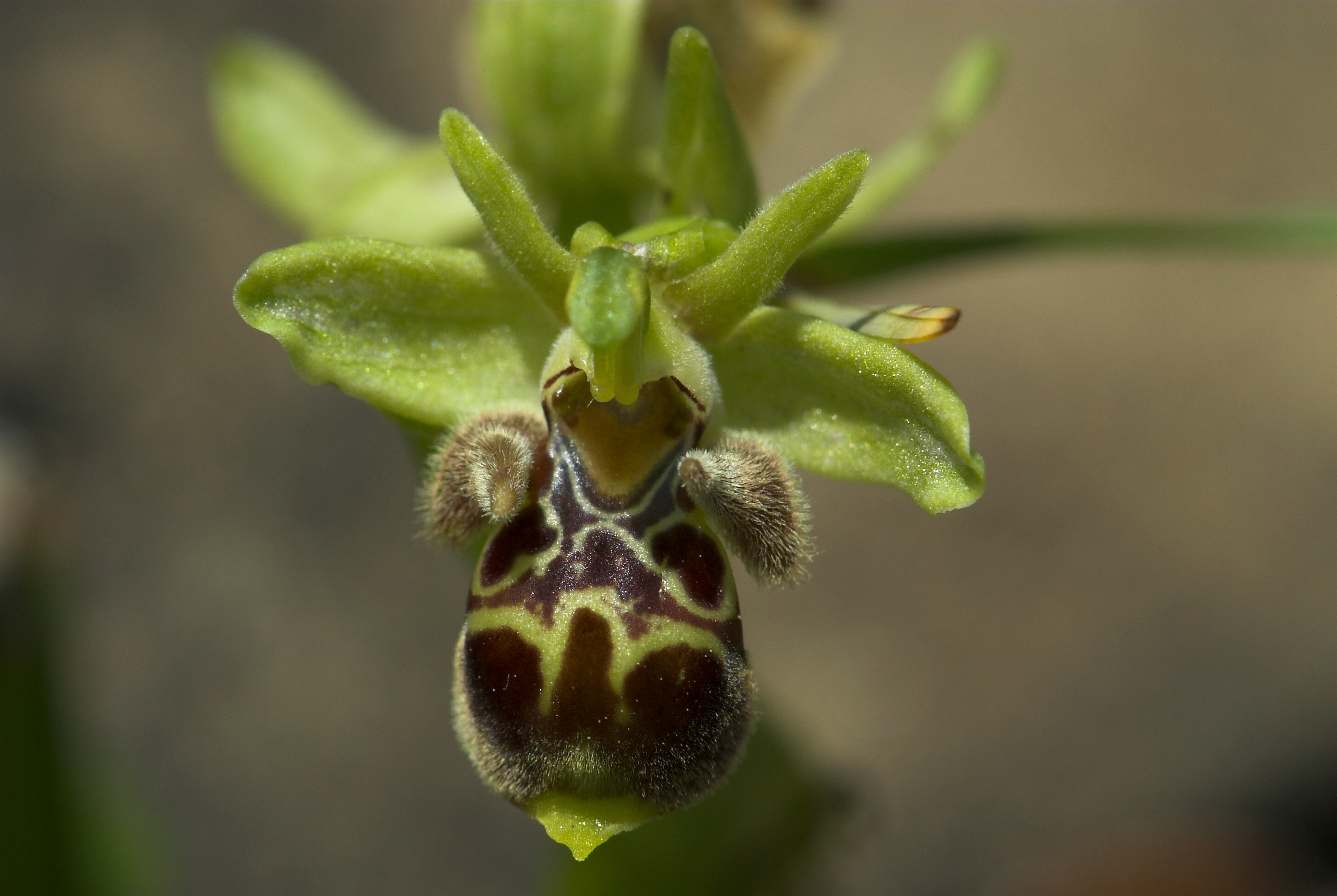 Ophrys attica Melitsa Peloponnese/Greece